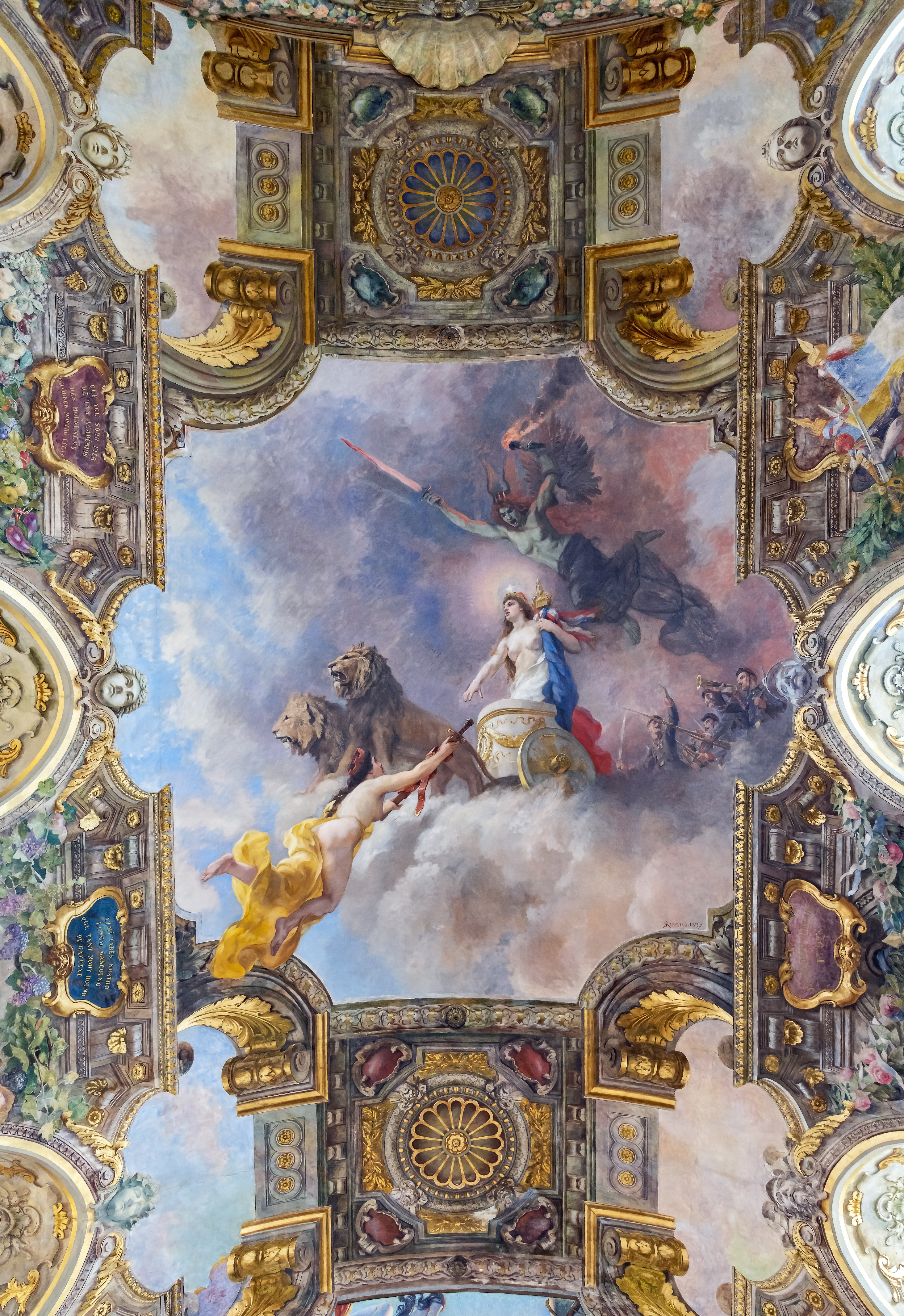 In the center the work of Jean André Rixens "Toulouse cooperating with the national defense", in the periphery anamorphic decorations of several painters.